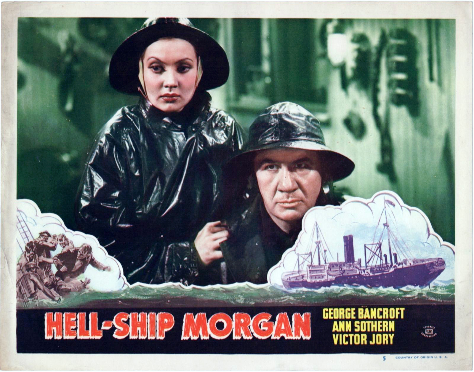 Lobby card from the 1936 film Hell-Ship Morgan with Ann Sothern and Victor Jory.